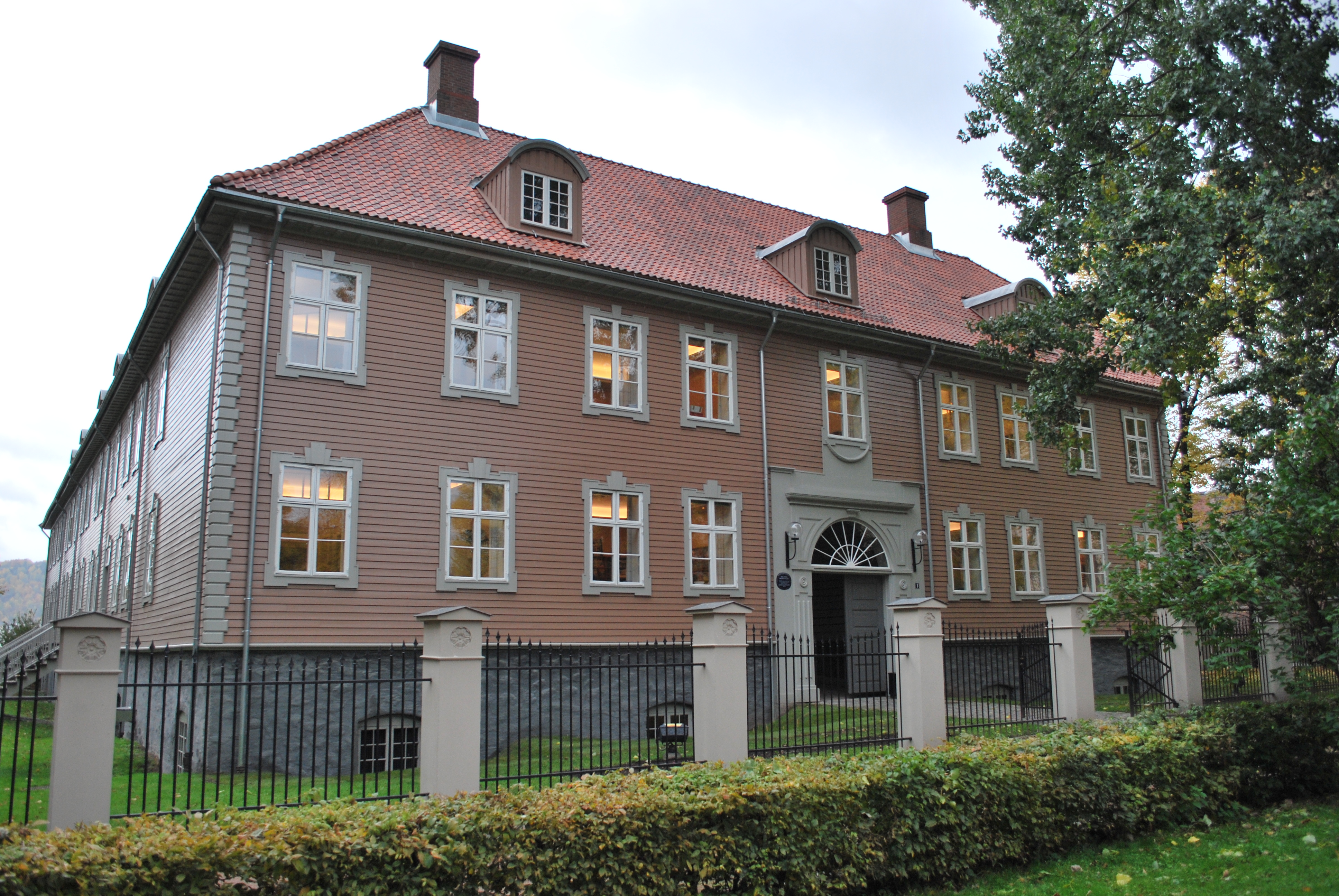 Militærhospitalet (The Military Hospital), Grev Wedels plass, Oslo